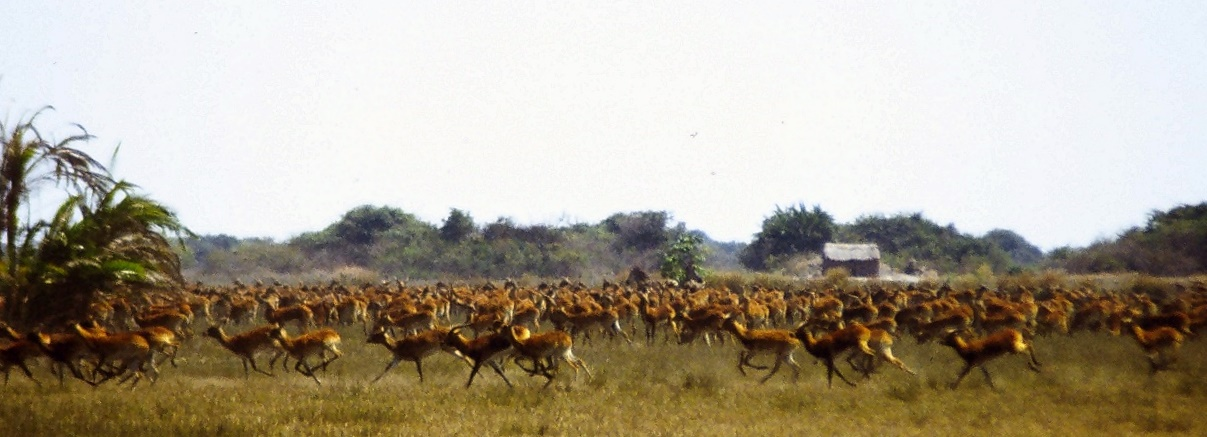 A small portion of a herd of Black lechwe (Kobus leche) at Bangweulu swamps, Zambia